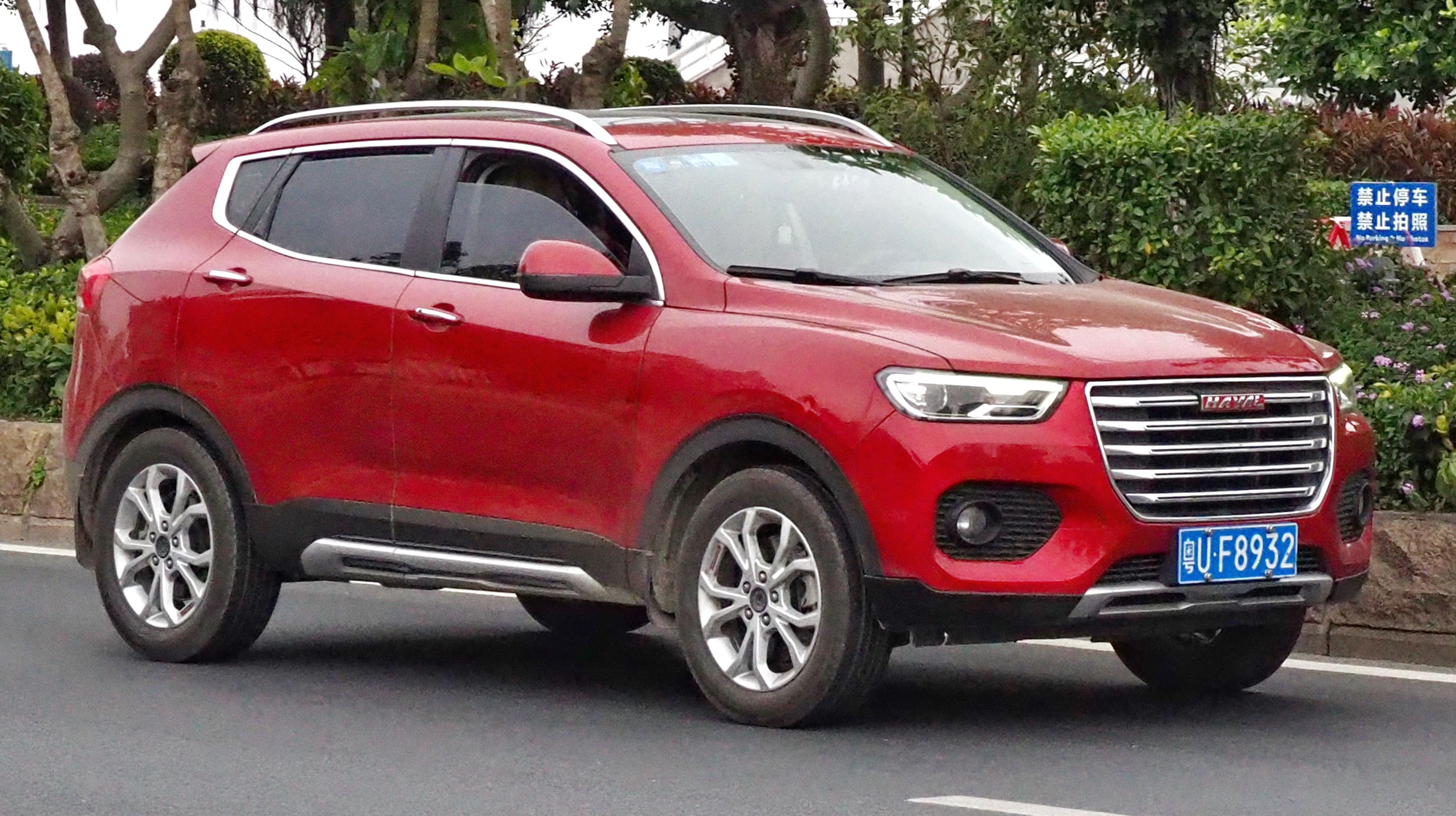 A 2016 Haval H2s Red photographed in Shantou, Guangdong Province, China. 中文（中国大陆）: 一辆2016年的哈弗H2s，拍摄于中国广东省汕头市。